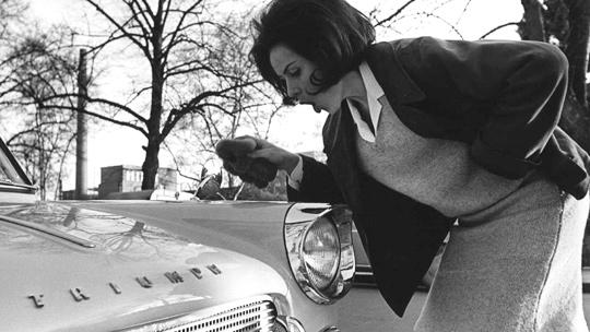 Photograph of the Finnish singer Laila Halme (1934–).